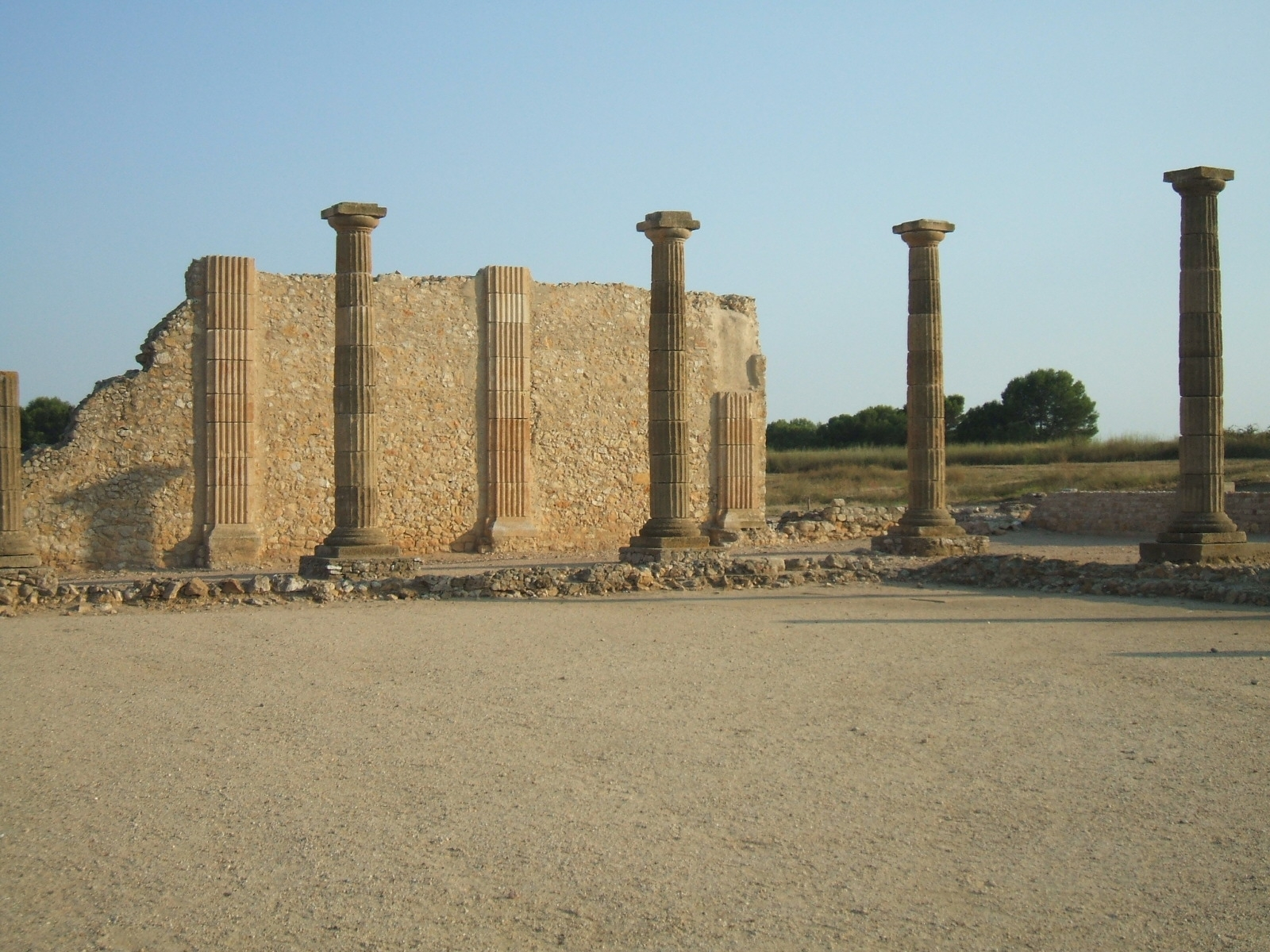 Empuries Archaeological Site (Catalunya, Spain) : Roman Town ; Forum : southwestern corner.